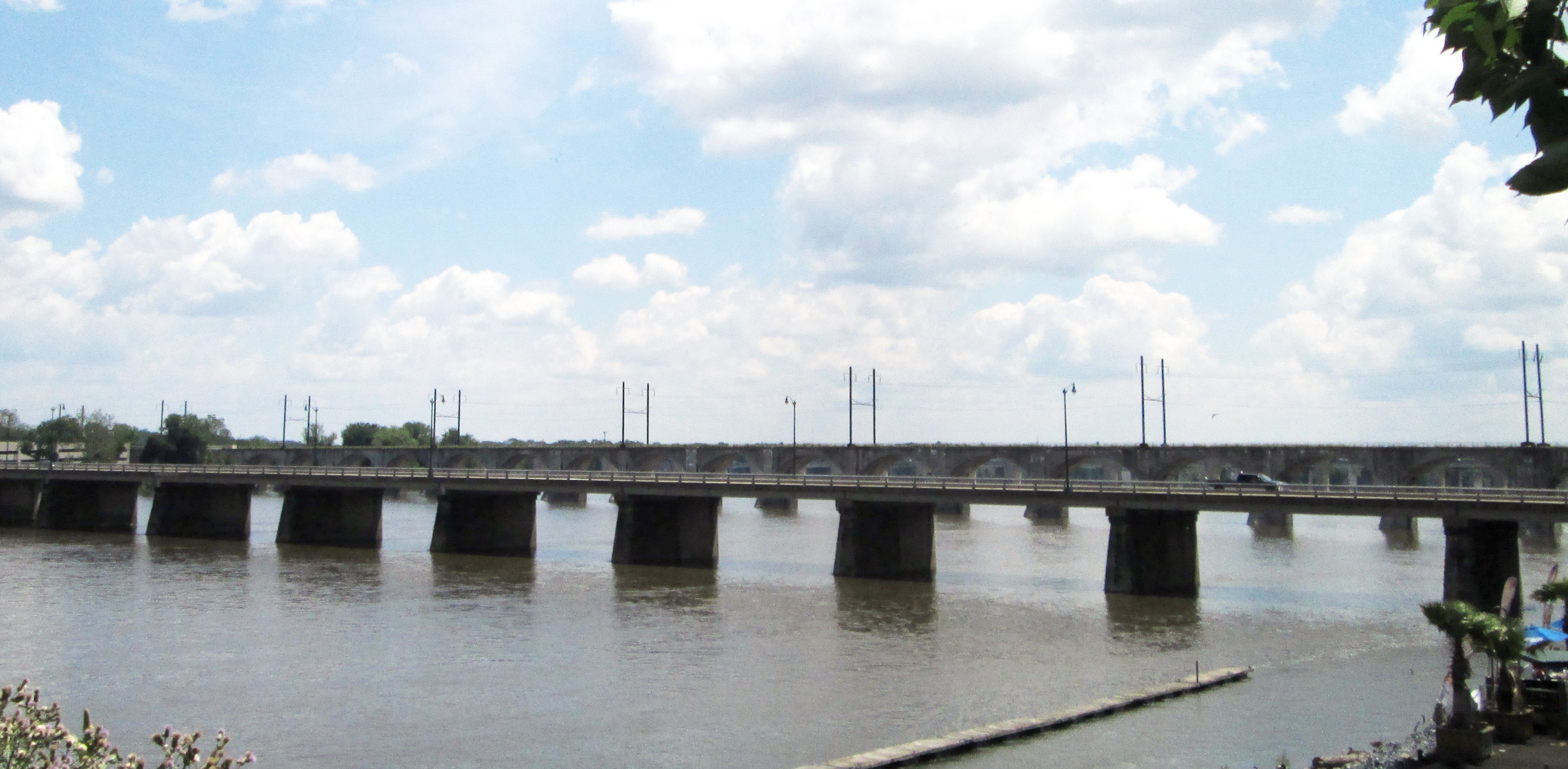 West-Side of Market Street Bridge, Harrisburg, PA